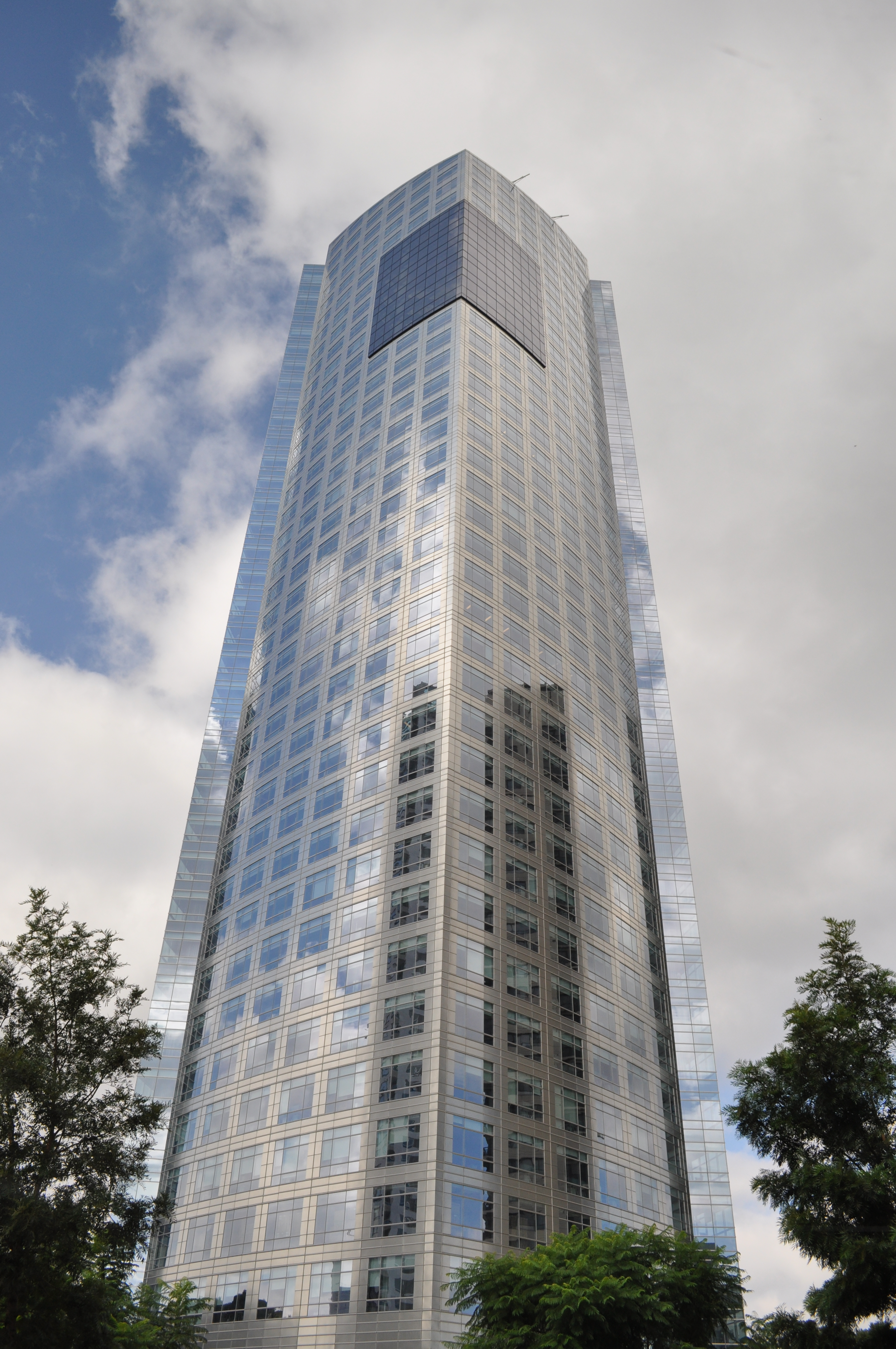 Repsol-YPF Tower (completed in 2008), Puerto Madero, Buenos Aires.